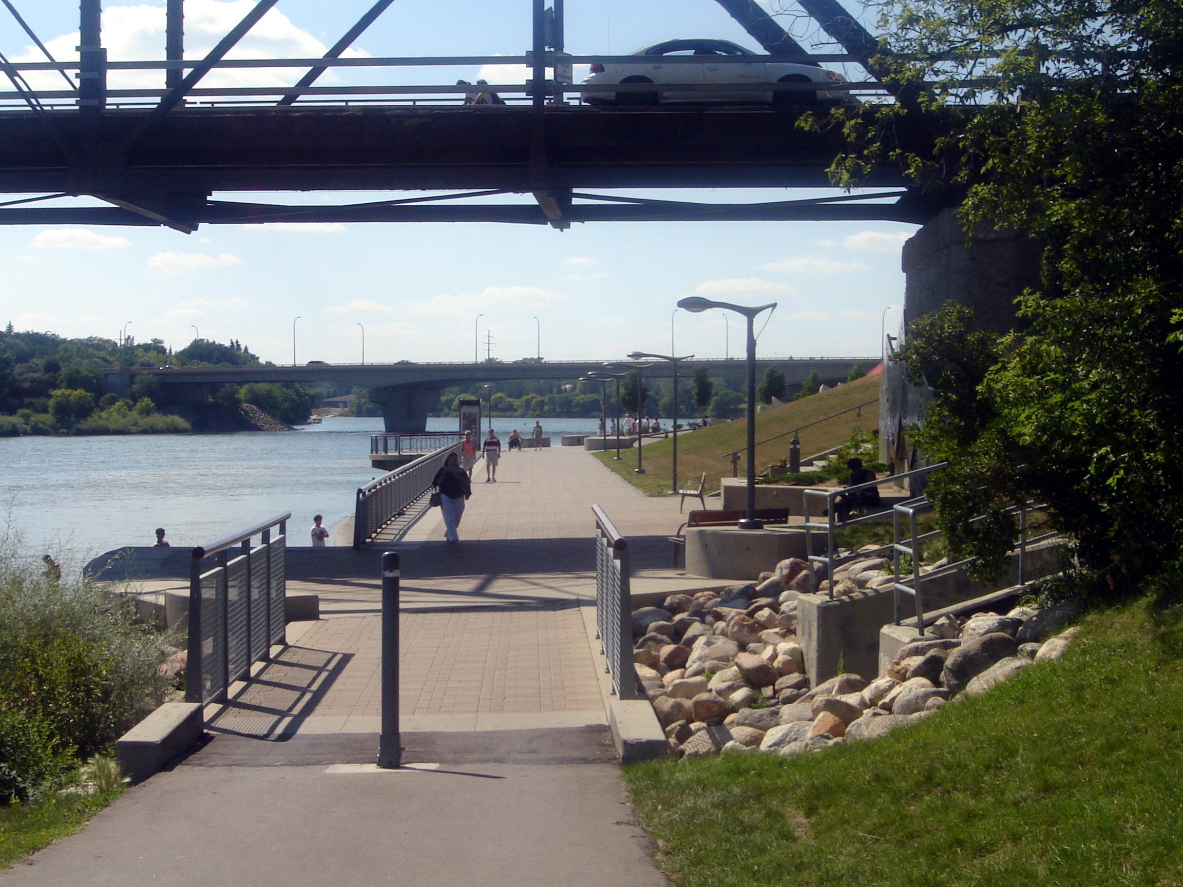 River Landing photo taken under the Victoria or Traffic Bridge slong the South Saskatchewan River taken in River Landing Central Business District, Saskatoon, Saskatchewan, Core Neighbourhoods SDA, Saskatoon, Saskatchewan, Canada The Idylwyld, Freeway, or Senator Sid Buckwold Bridge is in the background